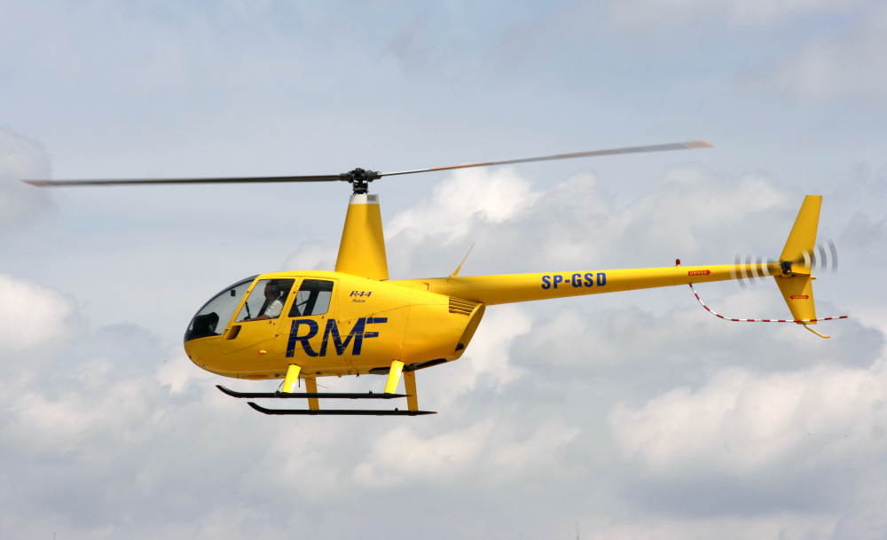 Robinson R44 Astro, helicopter